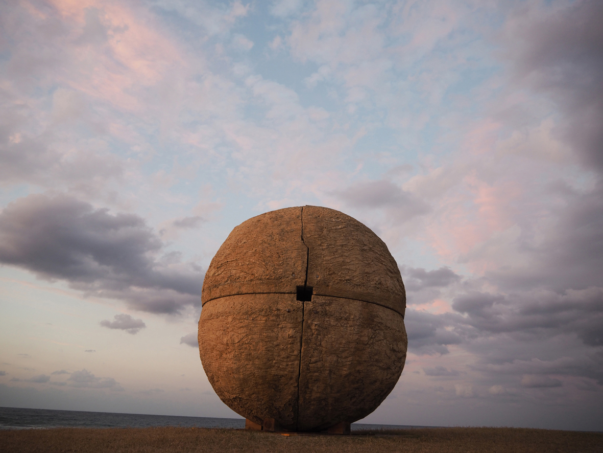 ヒカリ美術館企画展「大地は器２０１５」で９/20〜１０/12に京丹後市葛野浜に設置された大平和正さんの作品、Φ４.1mの土の巨大球体の写真